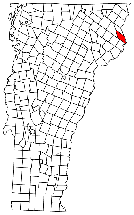 Description: Map of Vermont towns with Maidstone highlighted Source: Map created by Jared C. Benedict on 26 March 2004. Copyright: © Jared C. Benedict.